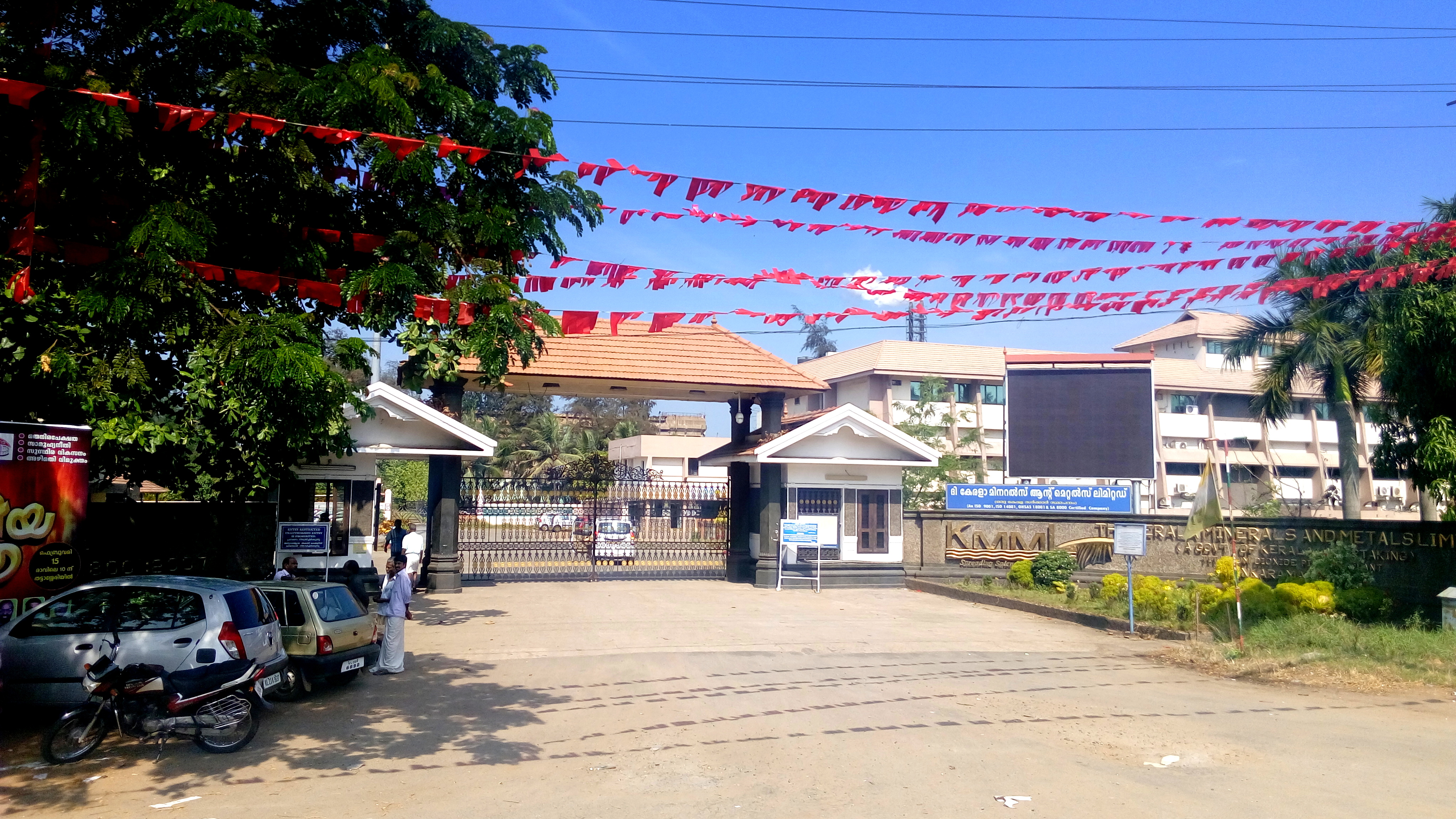 Kerala Minerals and Metals Ltd is an integrated titanium dioxide manufacturing public sector undertaking in Kollam city, India